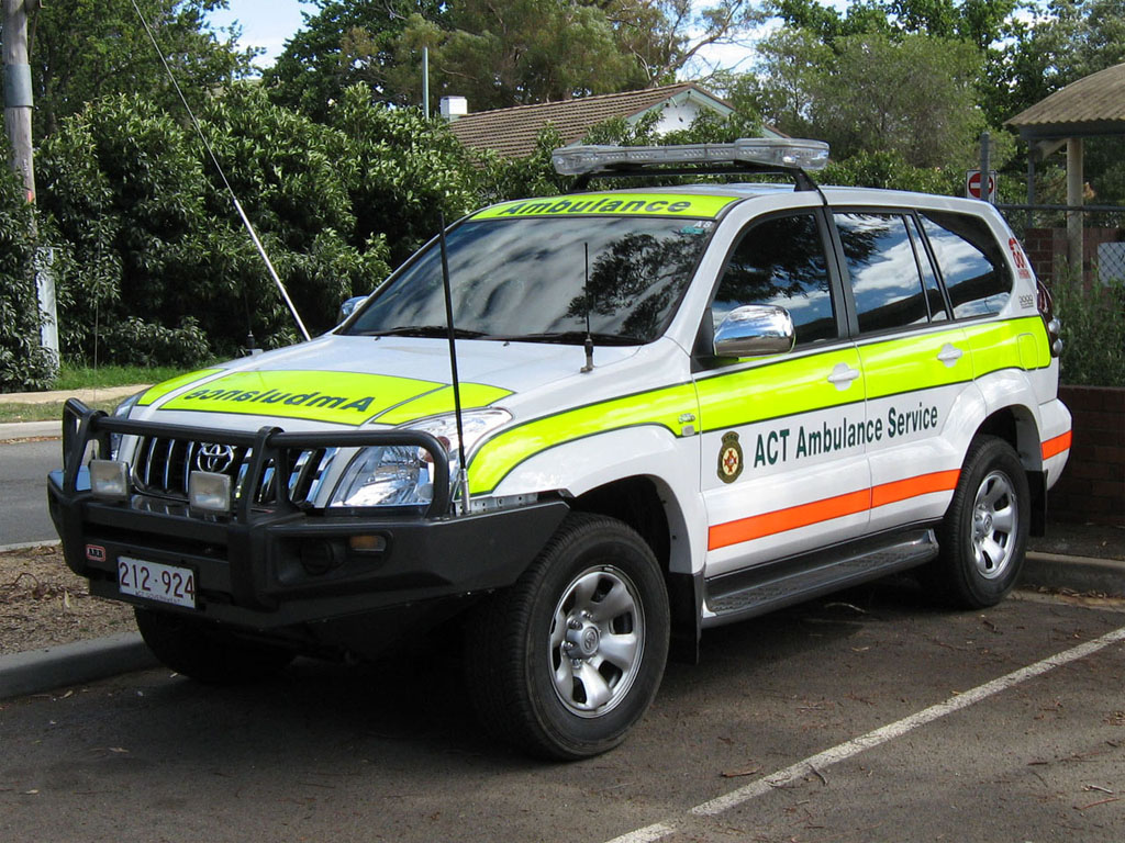 ACT Ambulance Service Operational Command unit.